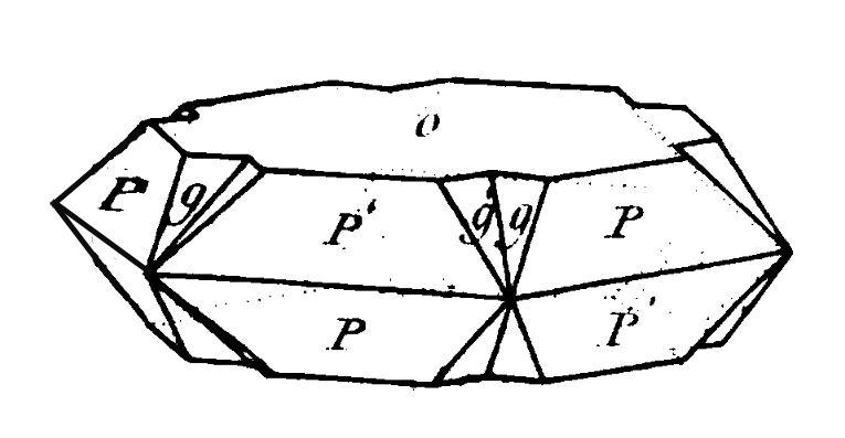 levyne twin. Fig 4 Plate VIII from Brewster, David (1825). «Description of levyne, a new mineral species». The Edinburgh Journal of Science, 2, 332-334.